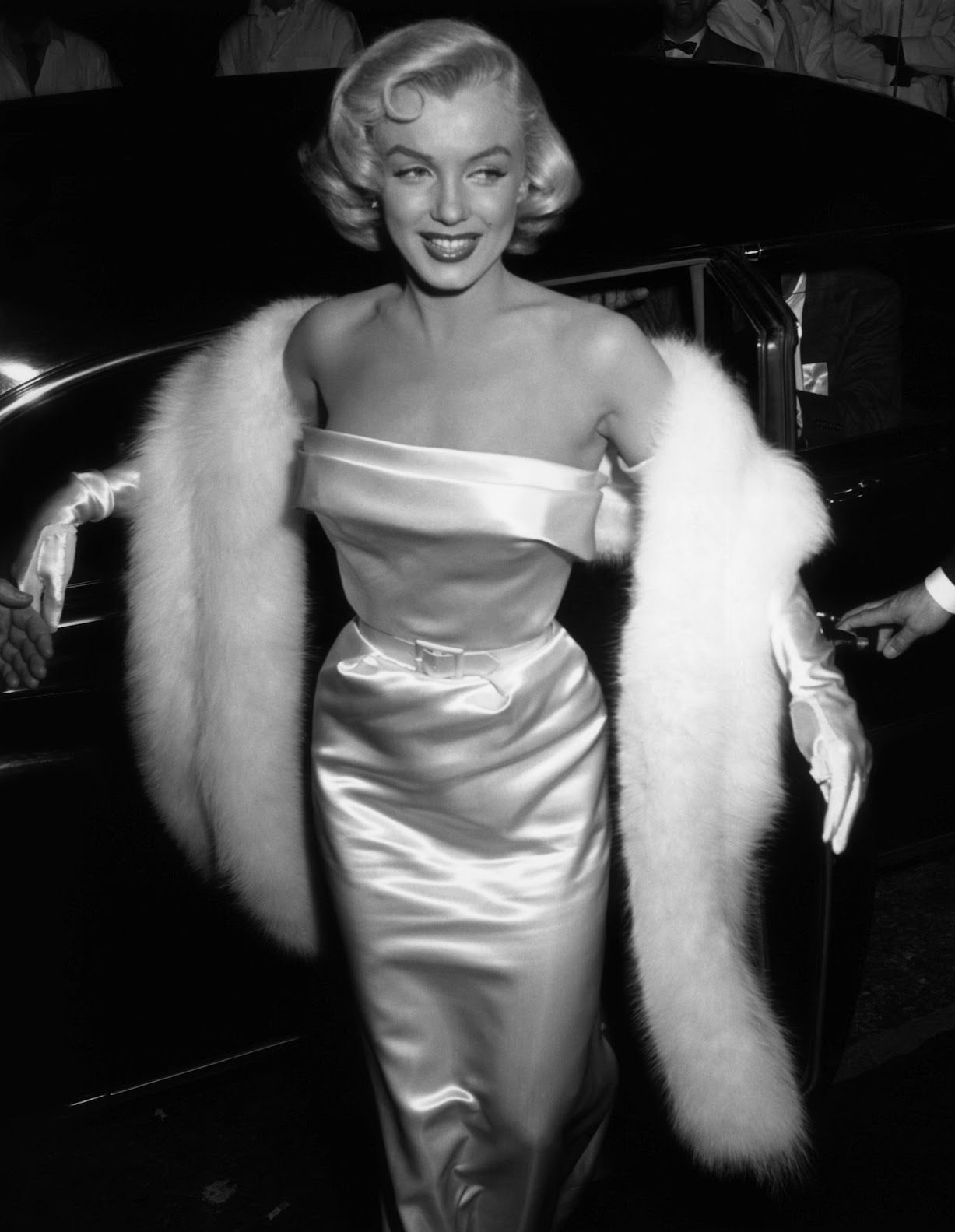 Monroe photographed arriving at Ciro's nightclub for a soirée celebrating Louella Parsons, published on page 37 of the November 1954 issue of Modern Screen Note this is a smaller, better quality copy of the photo seen on Modern Screen. A renewal search was done at using the title Modern Screen. There were no listings for the publication; there's no evidence of continued copyright on the magazine.